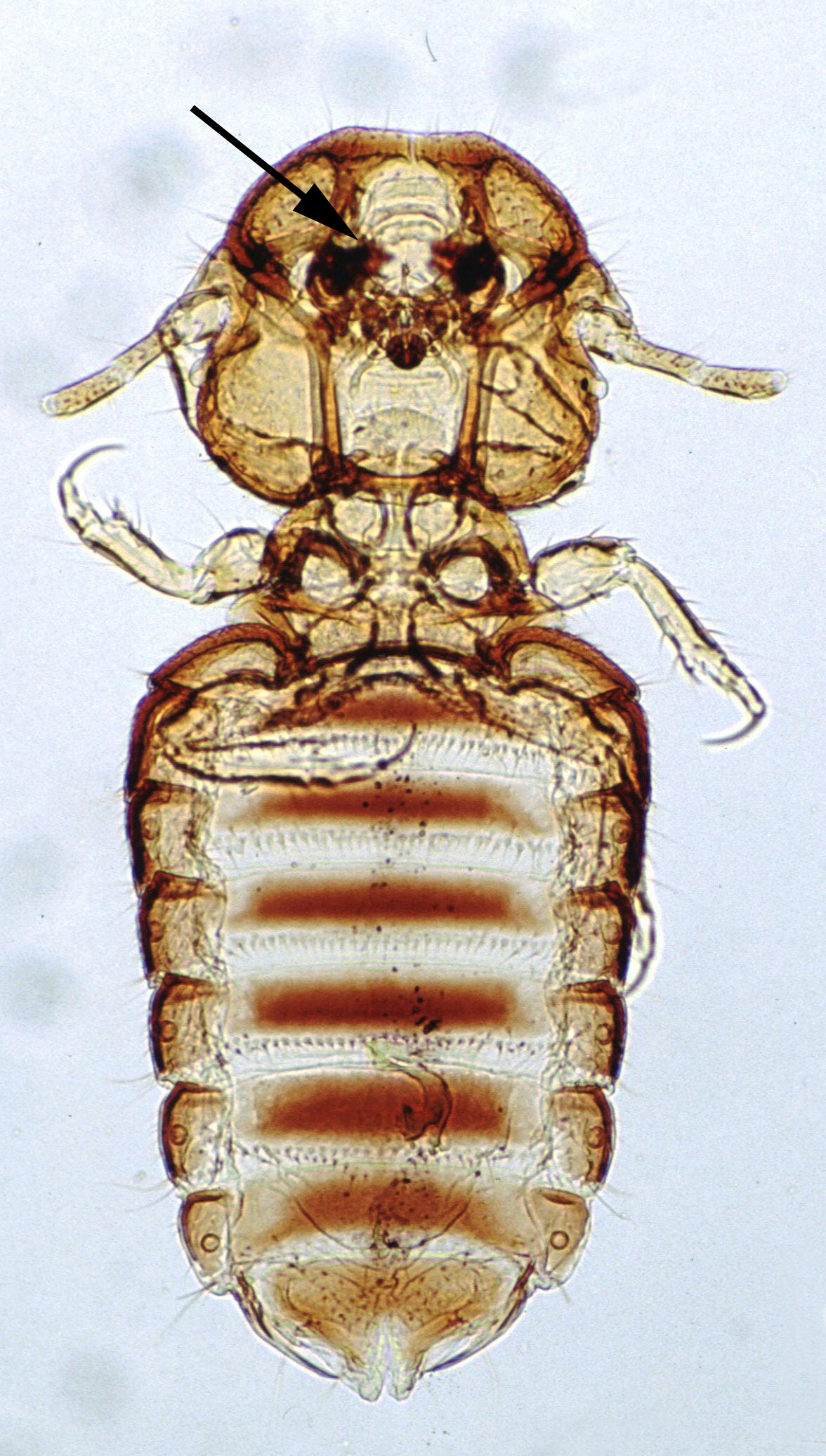 Bovicola chewing louse showing gripping mouthparts (arrowed).